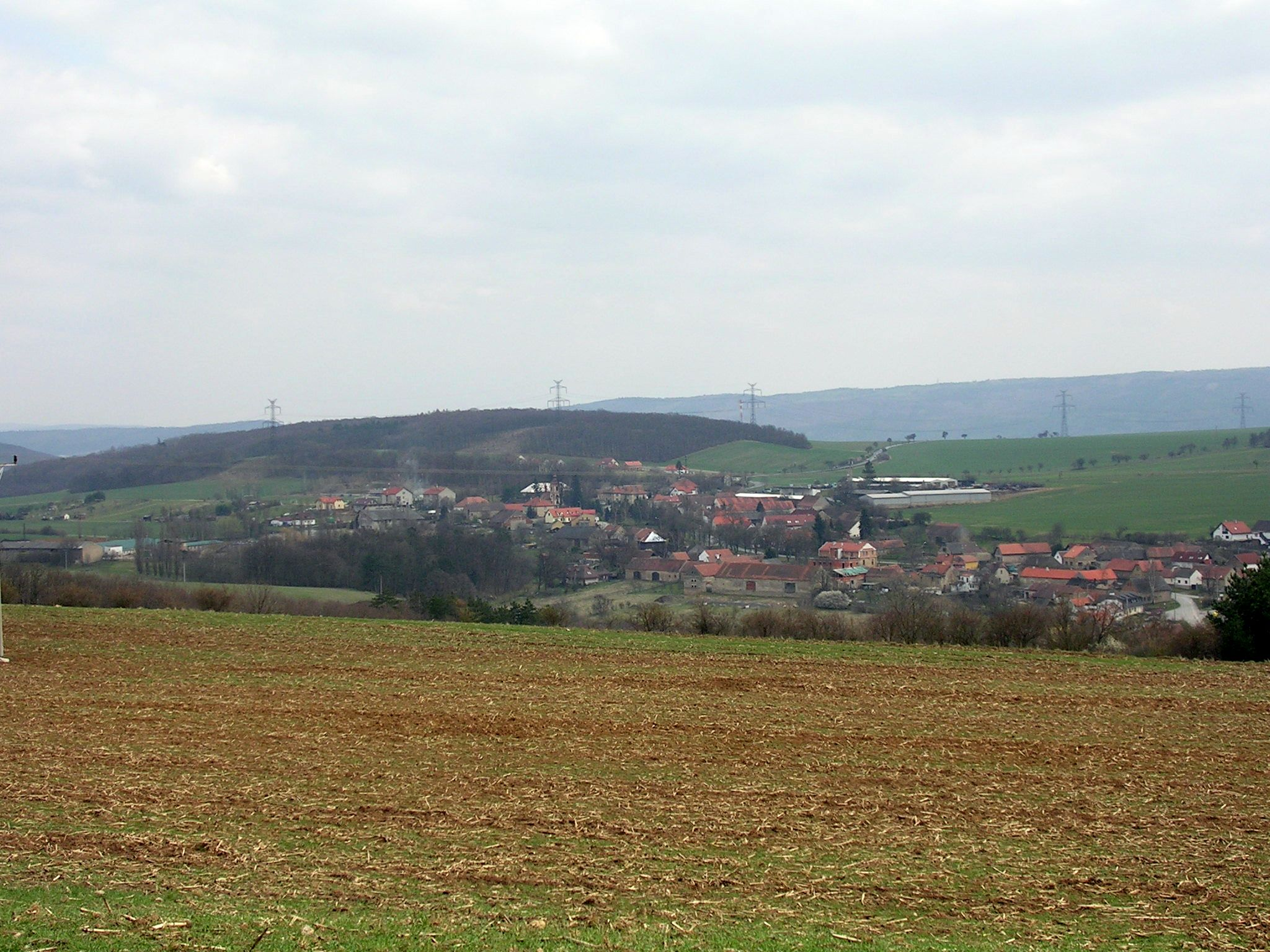 The village Mořina, Central Bohemian Region, the Czech Republic.